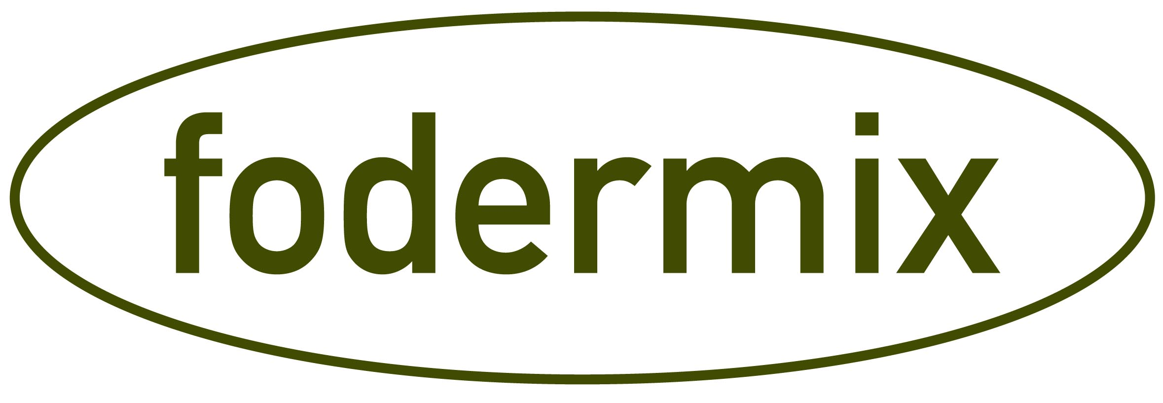 The official logo of Fodermix